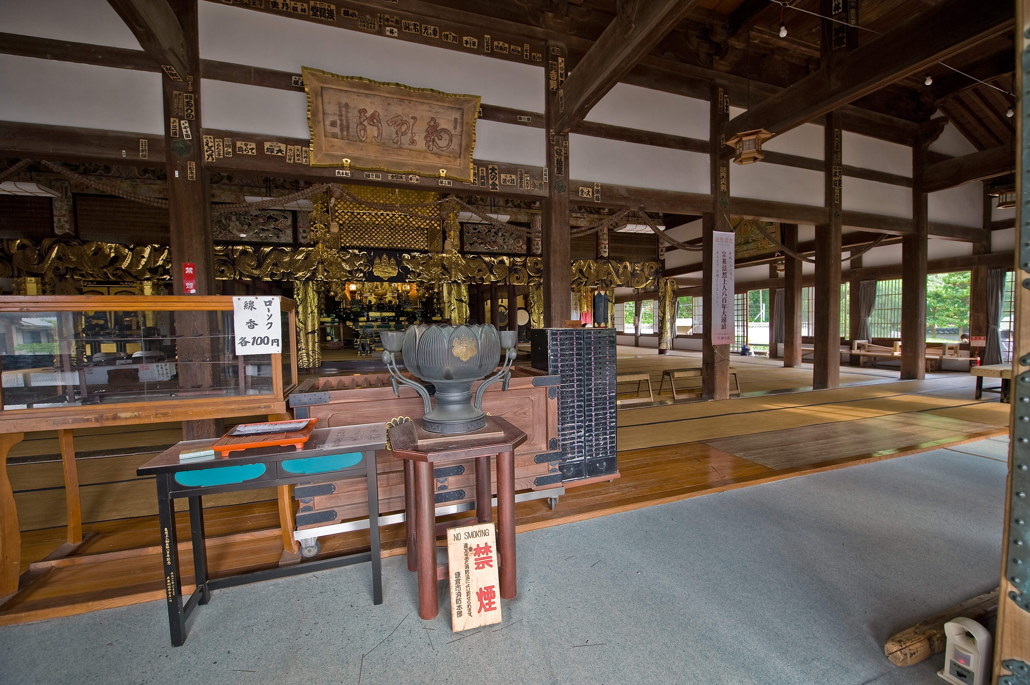 The Main Hall at Komyoji in Kamakura